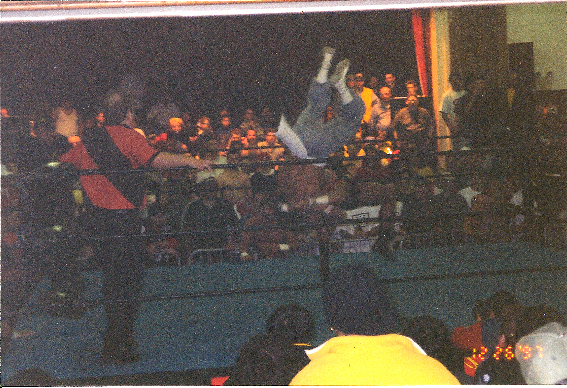 ECW Elks Lodge "WWE Invasion" 12.26.97